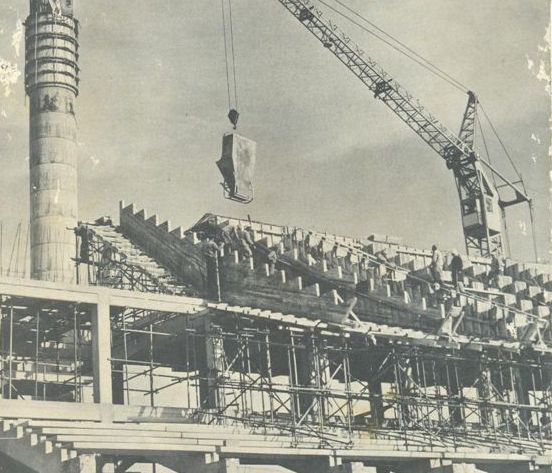 Benghazi sports city during it's early construction.